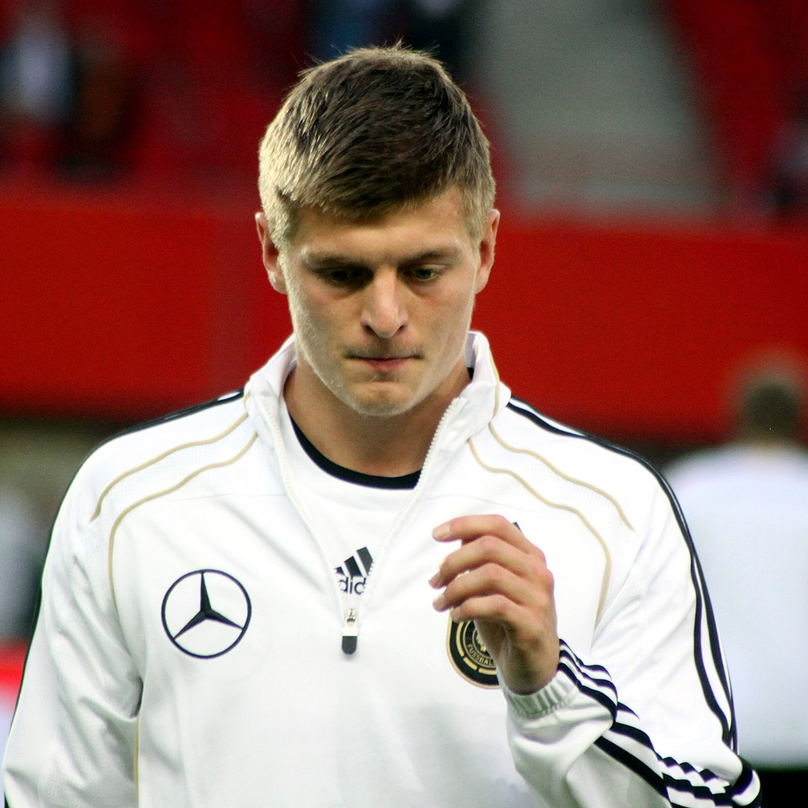 Toni Kroos (FC Bayern Munich), german national football team - OpenStreetMap(Info)